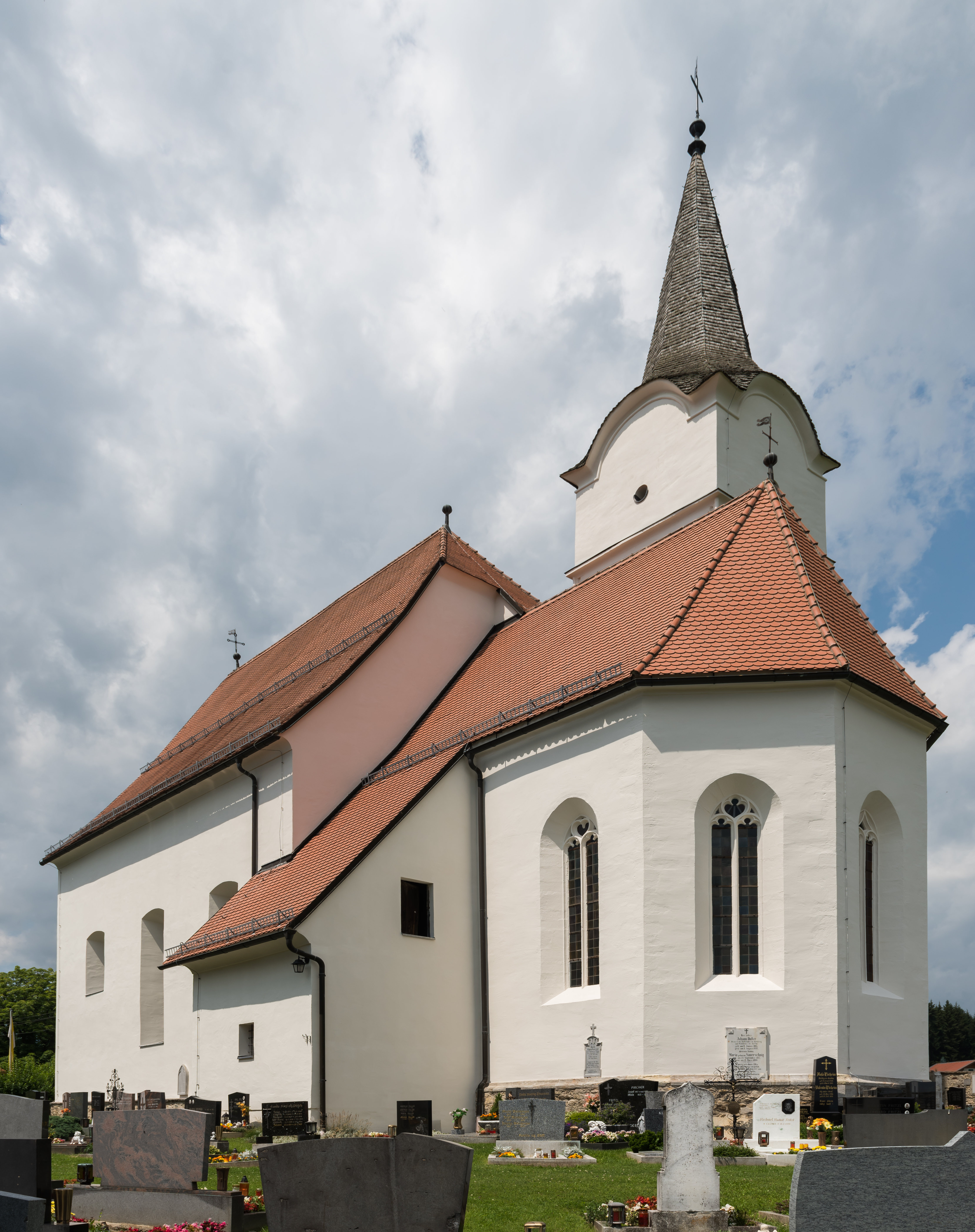 Parish church Saint John the Baptist at Pölling, municipality St. Andrae in Kaernten, district Wolfsberg, Carinthia, Austria, EU